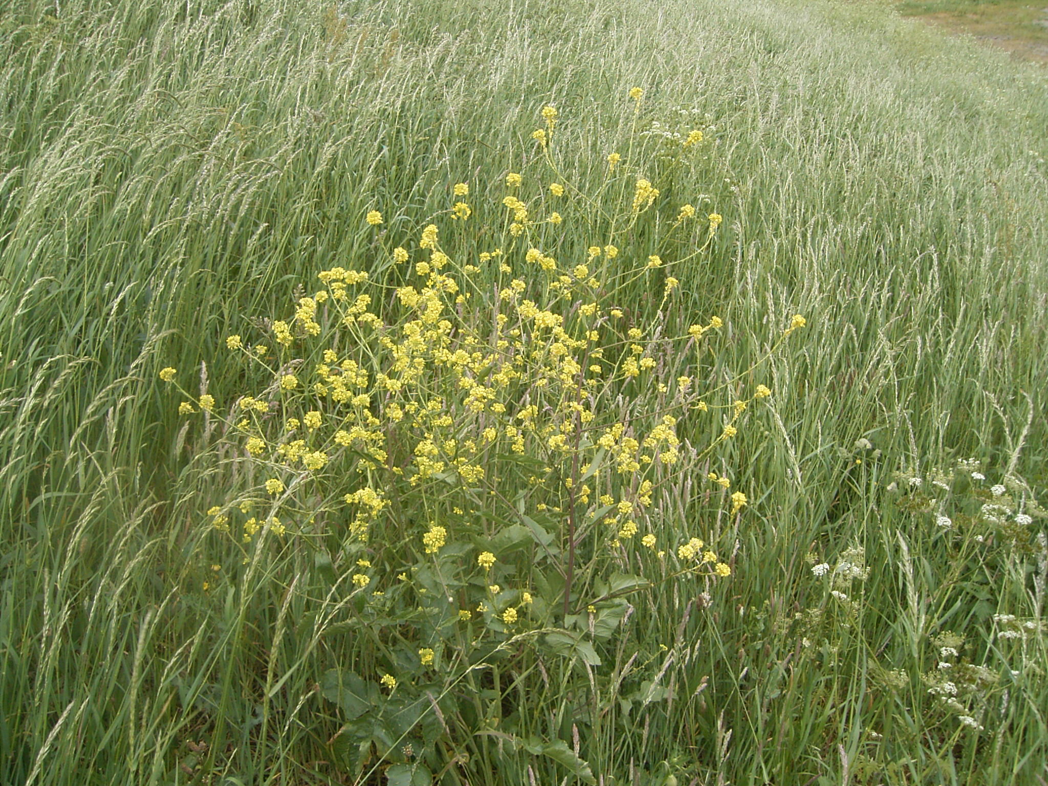 This photo shows Rapistrum rugosum